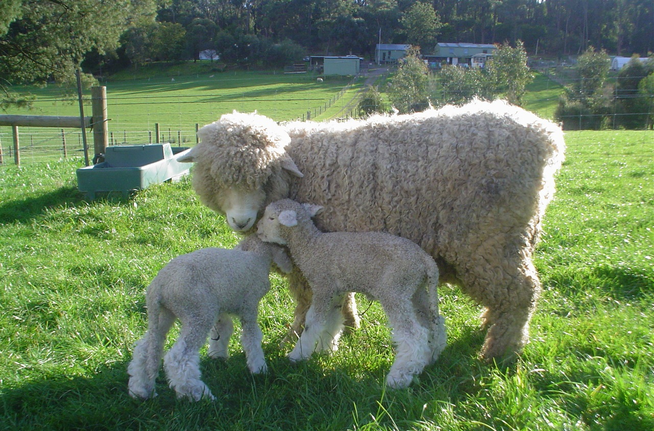 A Romney shiquolt and lambs.